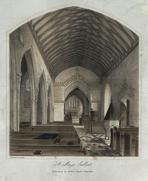 1 print : lithograph, b&w ; image size 277 x 238 mm., paper size 437 x 301 mm.